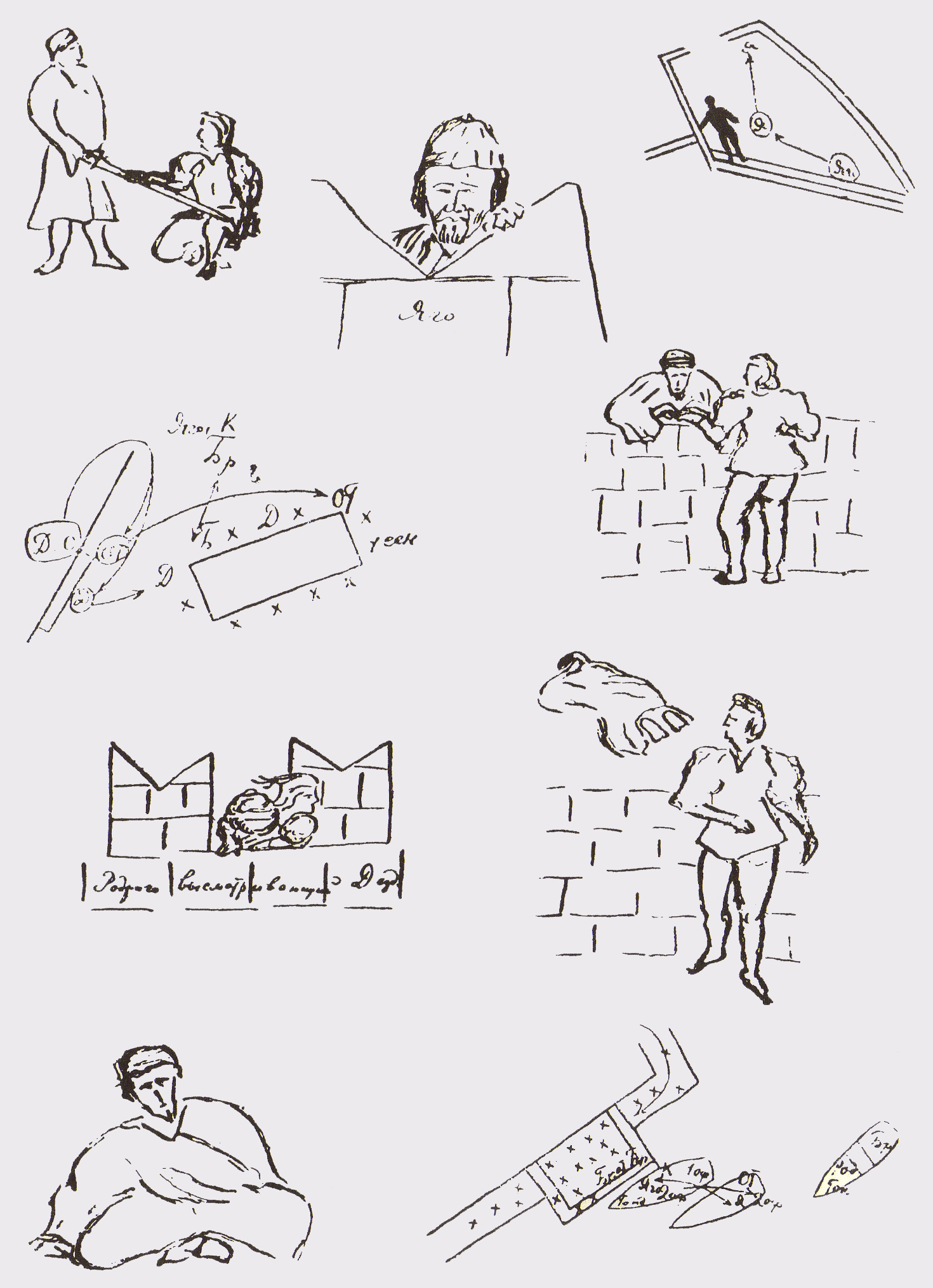 Sketches by Konstantin Stanislavski in his 1938 production plan for William Shakespeare's Othello.